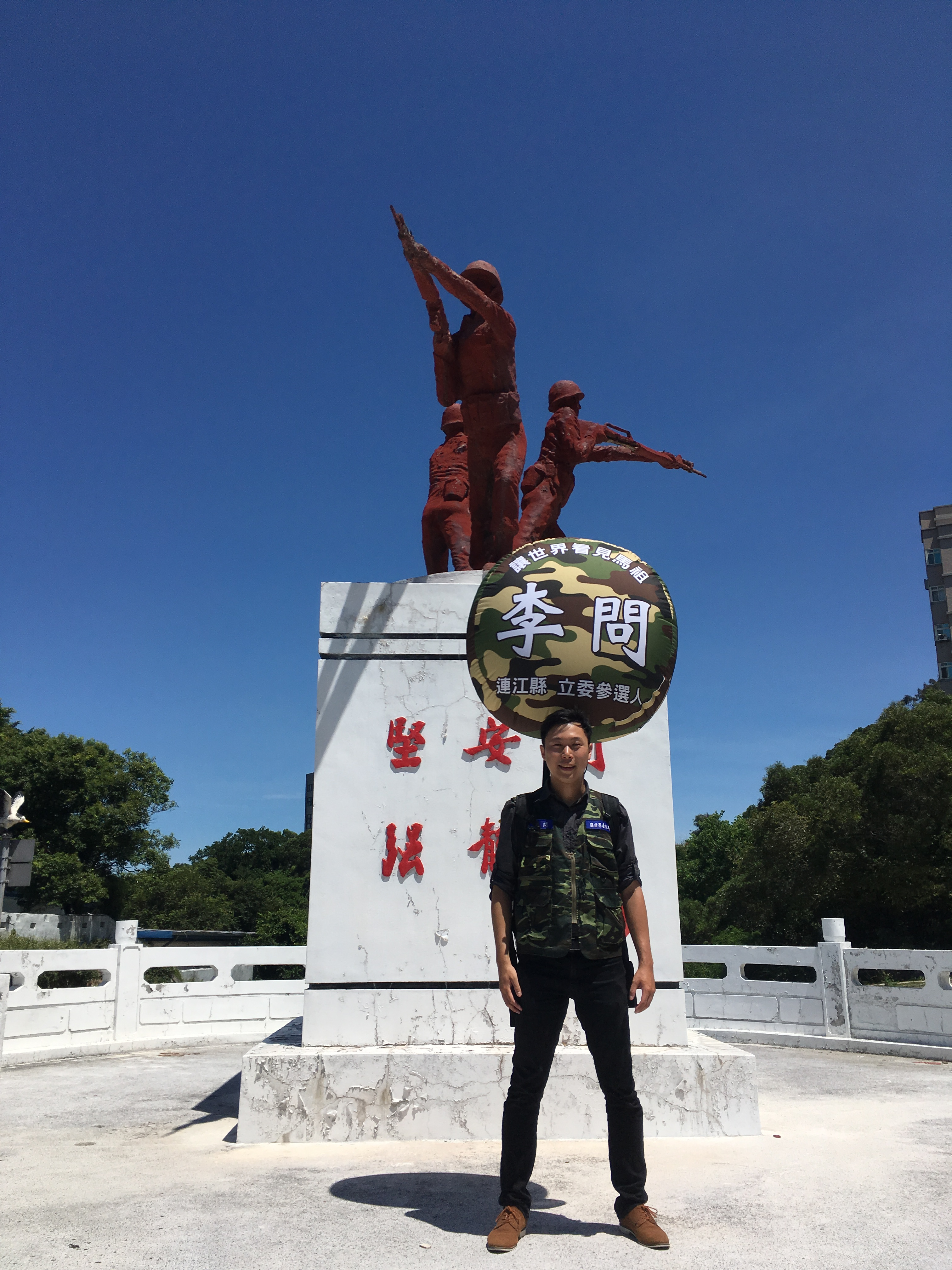 Wen Lii, who is running the Legislator of Matsu.